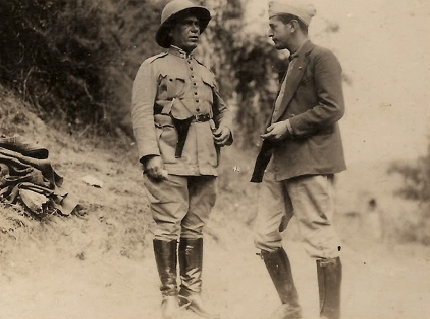 colonel José Joaquim de Andrade in Silveiras, São Paulo, during Constitutionalist Revolution of 1932